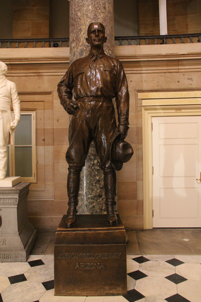 John Campbell Greenway's statue in the Capitol Rotunda